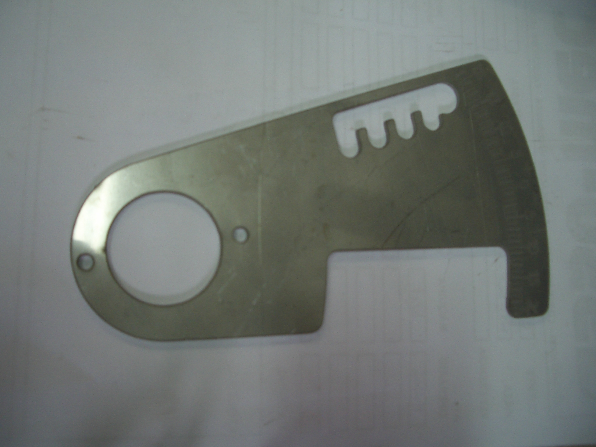 Water cutted metal object